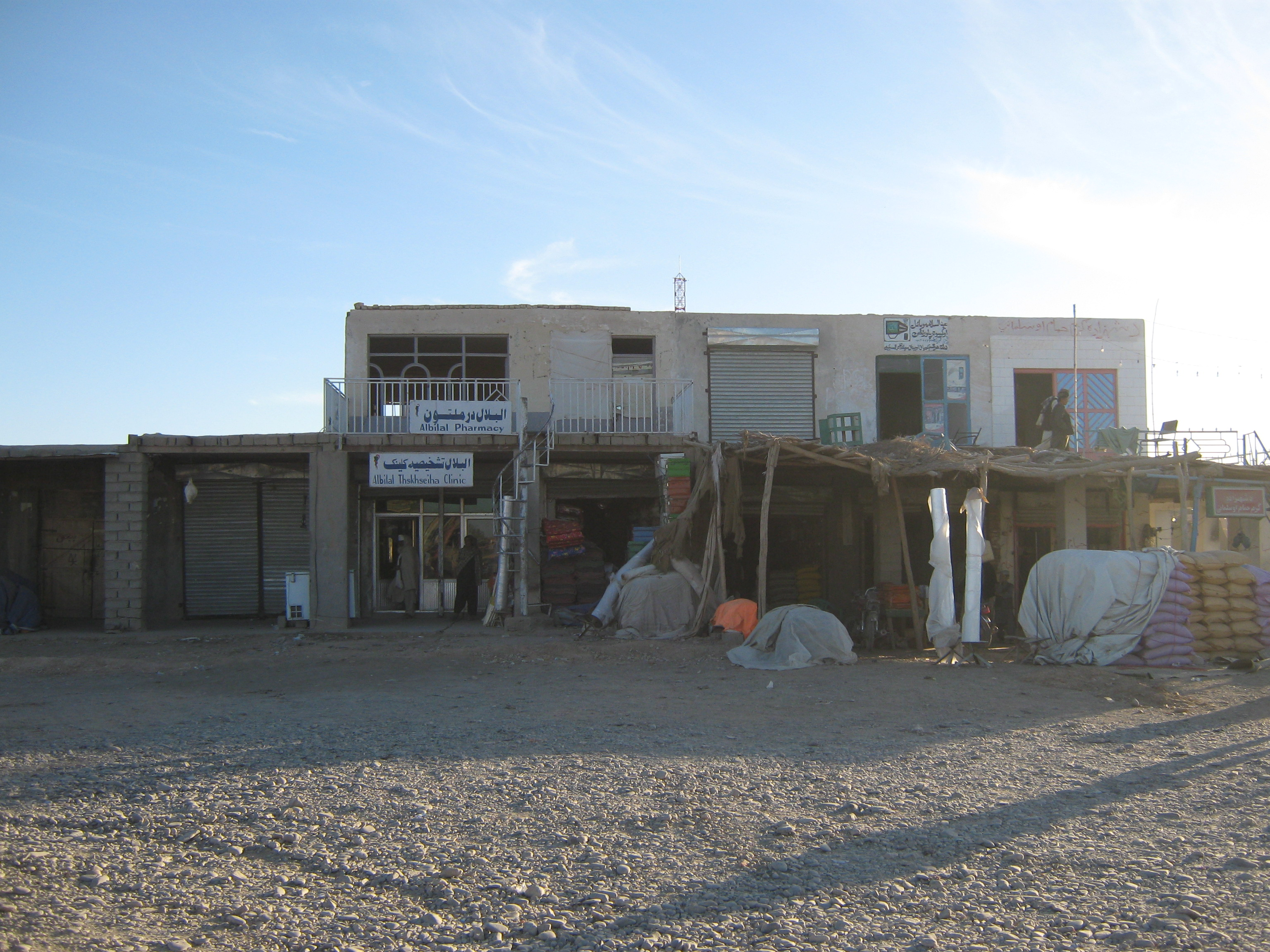 Delaram Bazaar, Afghanistan. This shop is along the Kandahar–Herat Highway.